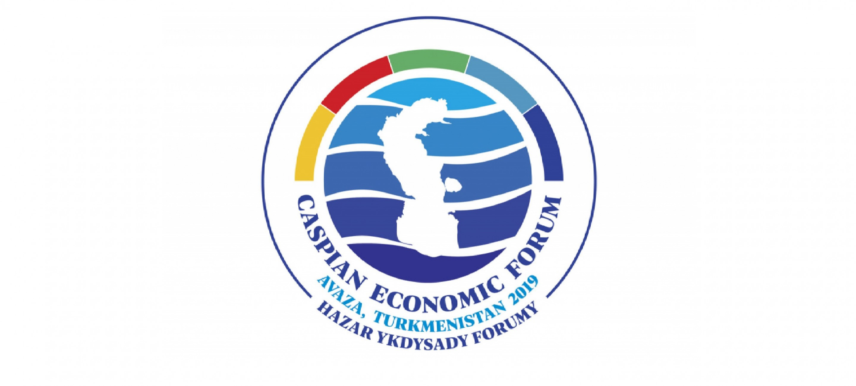 The Logo of I Caspian Economic Forum held in Avaza, Turkmenistan